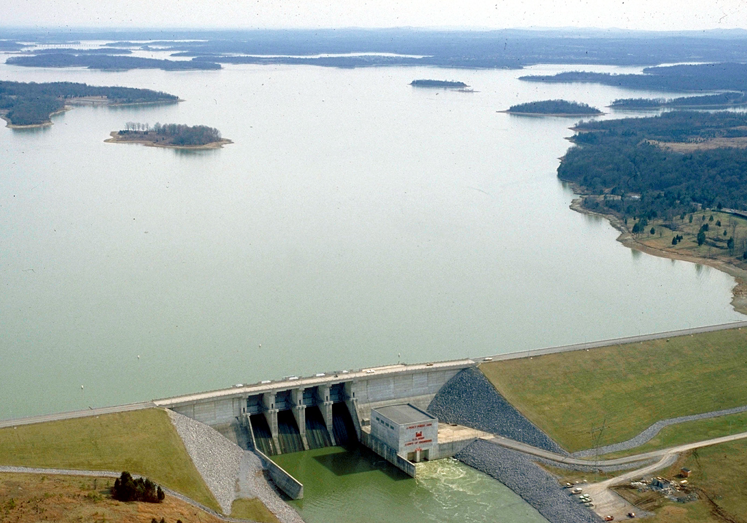 J. Percy Priest Lake and Dam on the Stones River in Davidson County near Nashville, Tennessee, USA.